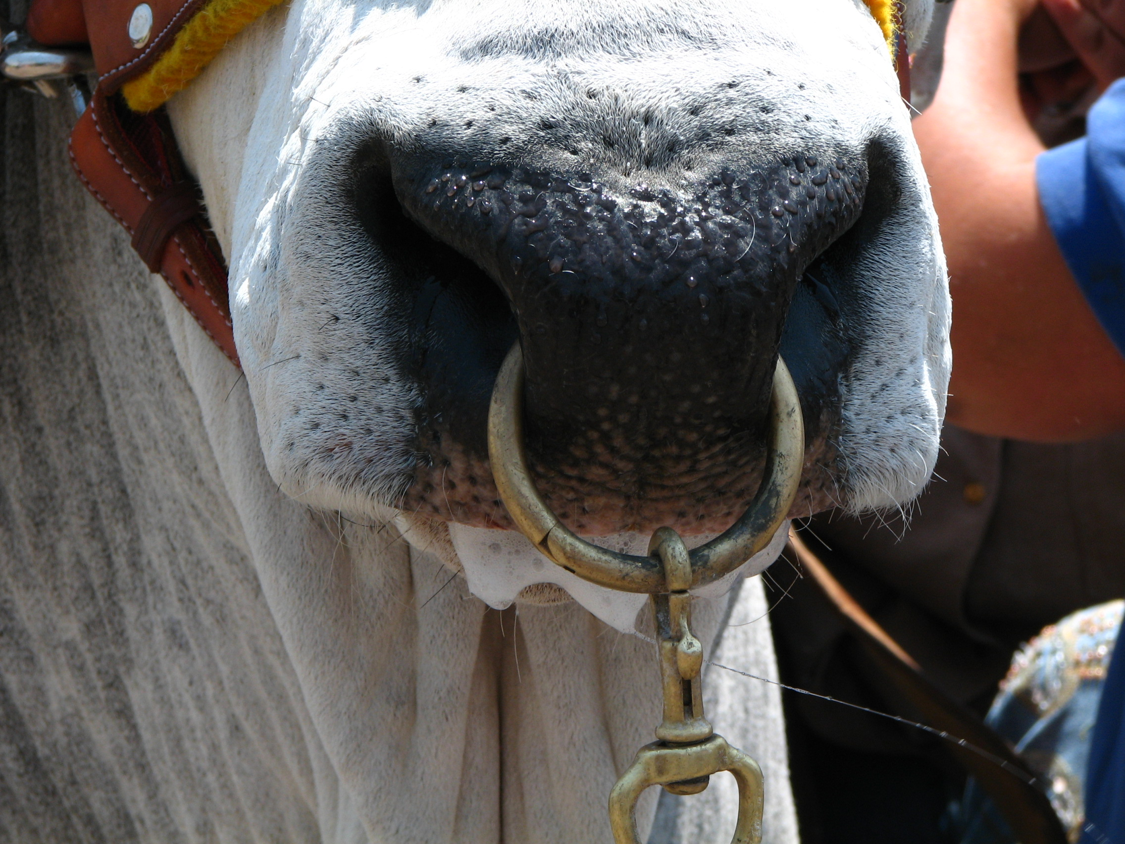 Cow with nose ring in Mexico